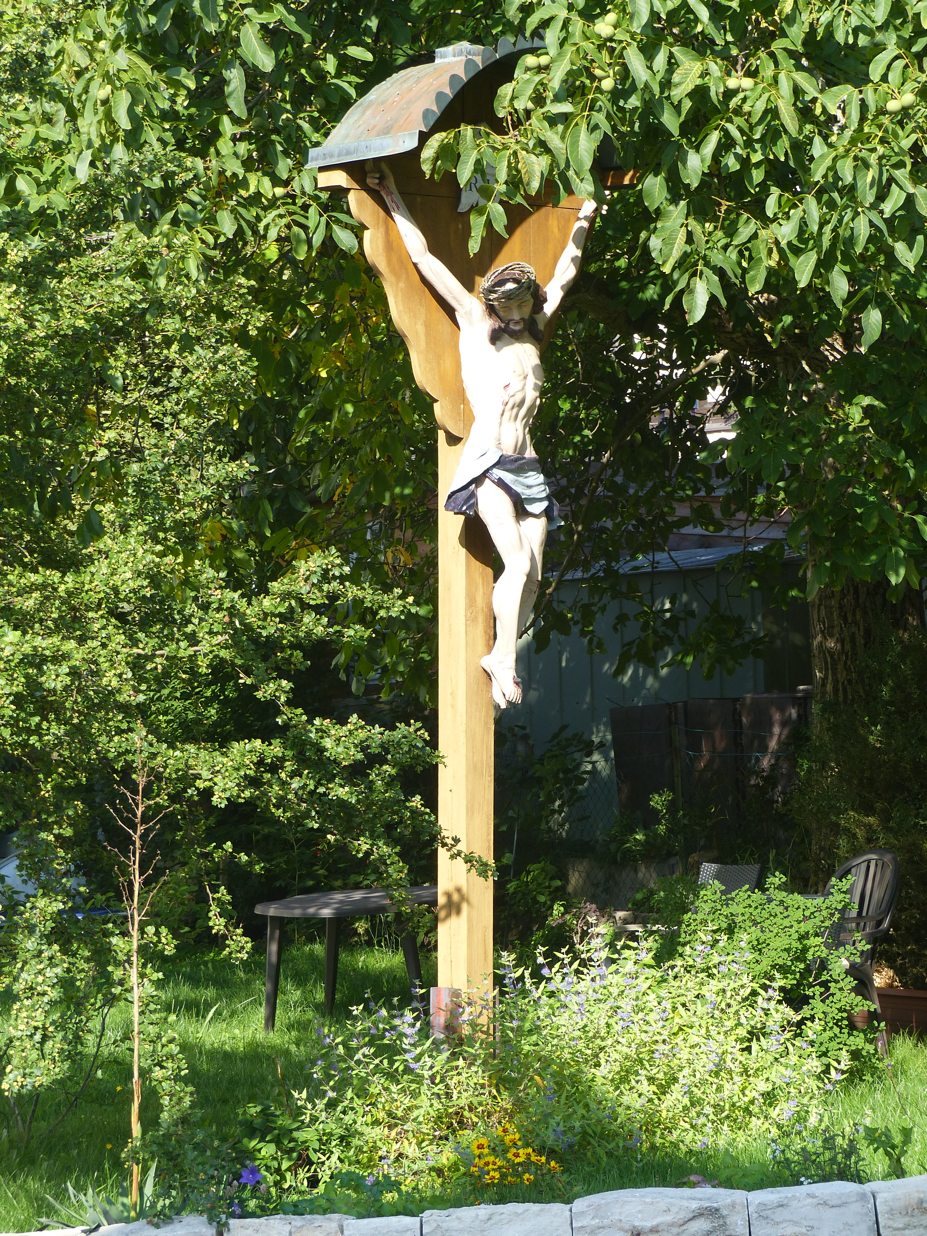 A wayside cross in the village Sollenberg, a district of the municipality of Gräfenberg.